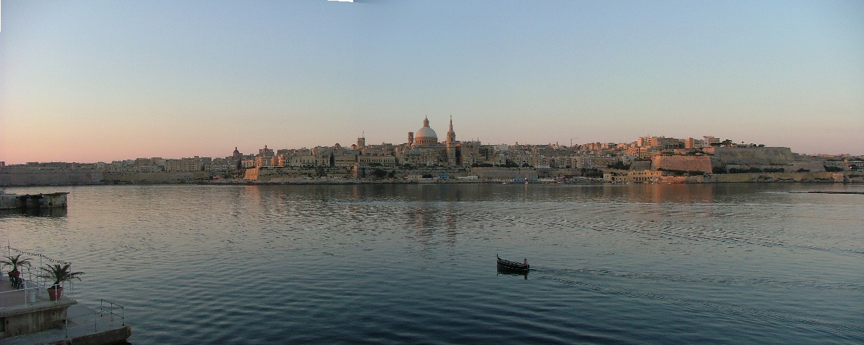 View of Valetta, taken at sunrise. This photo has been produced by combining 3 photos into a panoramic photo.